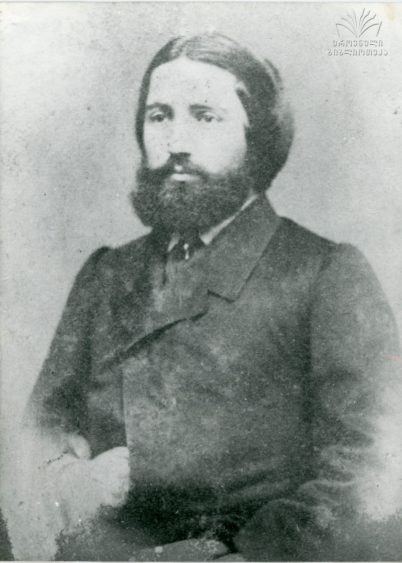 Prince Ilia Chavchavadze, 1860 Georgia Pre-1921 image, unknown author, very old image paken in 1860 in St Pitersburg, Russian Empire